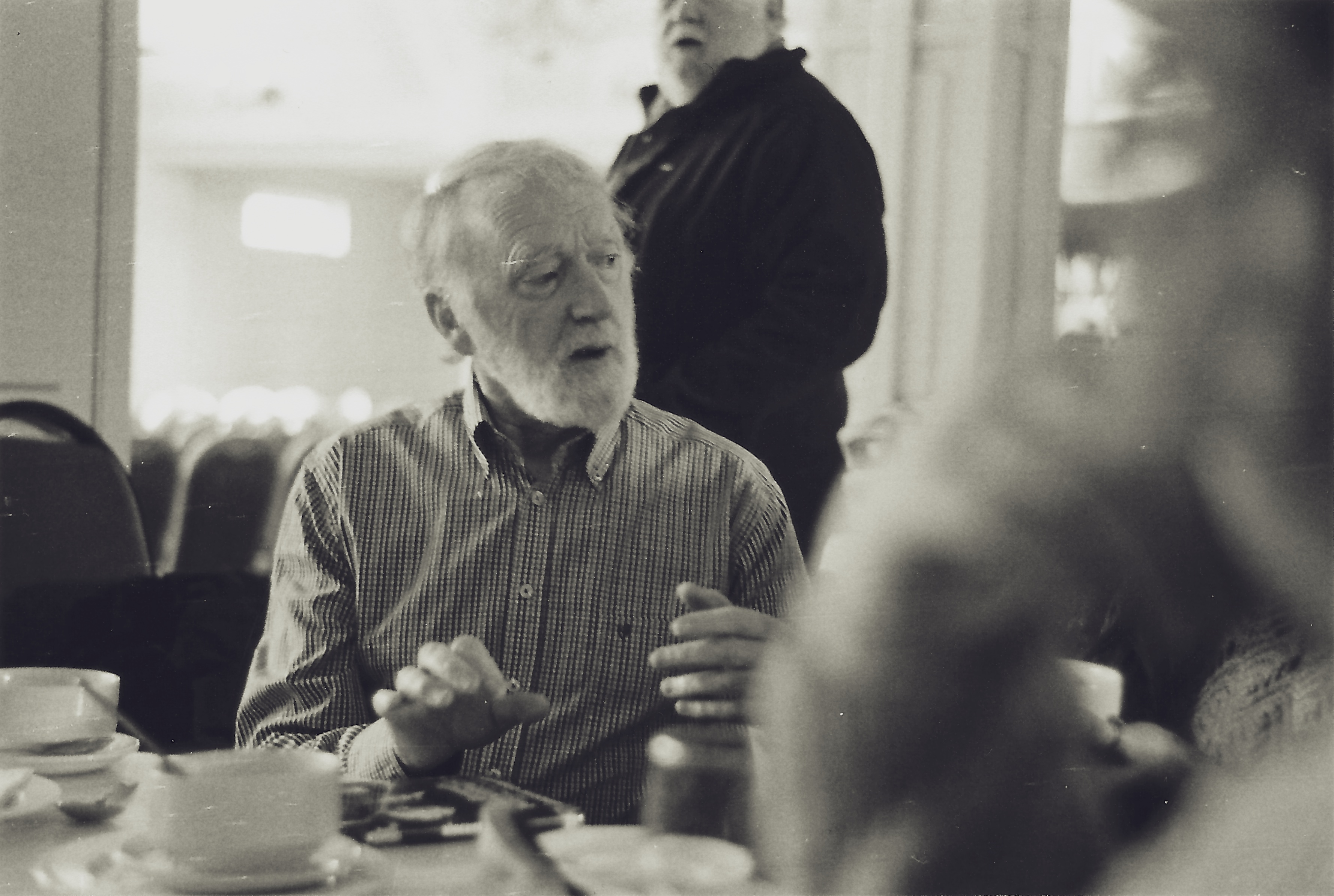 Luke Cheevers at the Inishowen Singing Weekend in March of 2014.